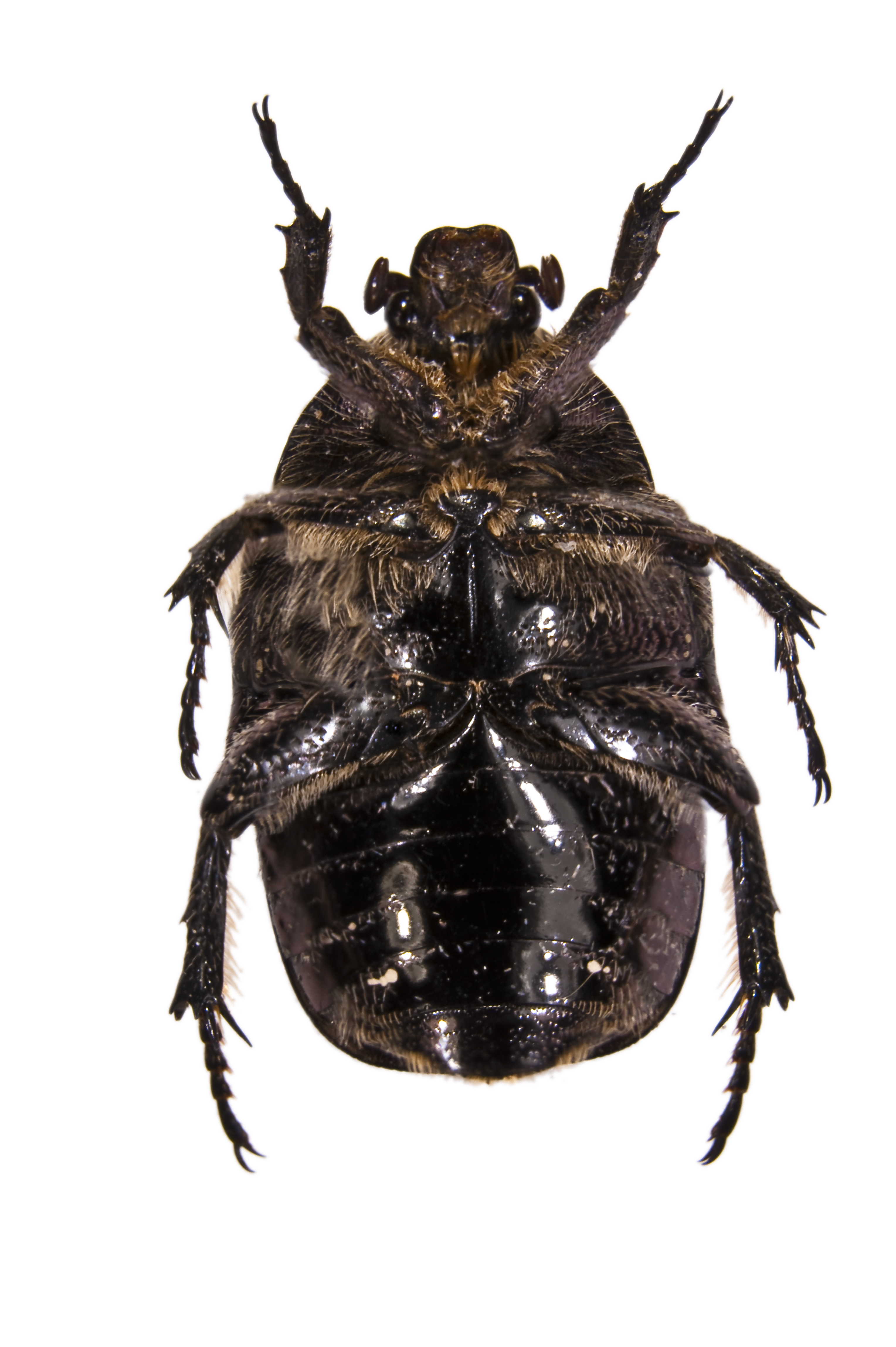 Protaetia (neotocia) morio - Ventral view - France - 1.8cm